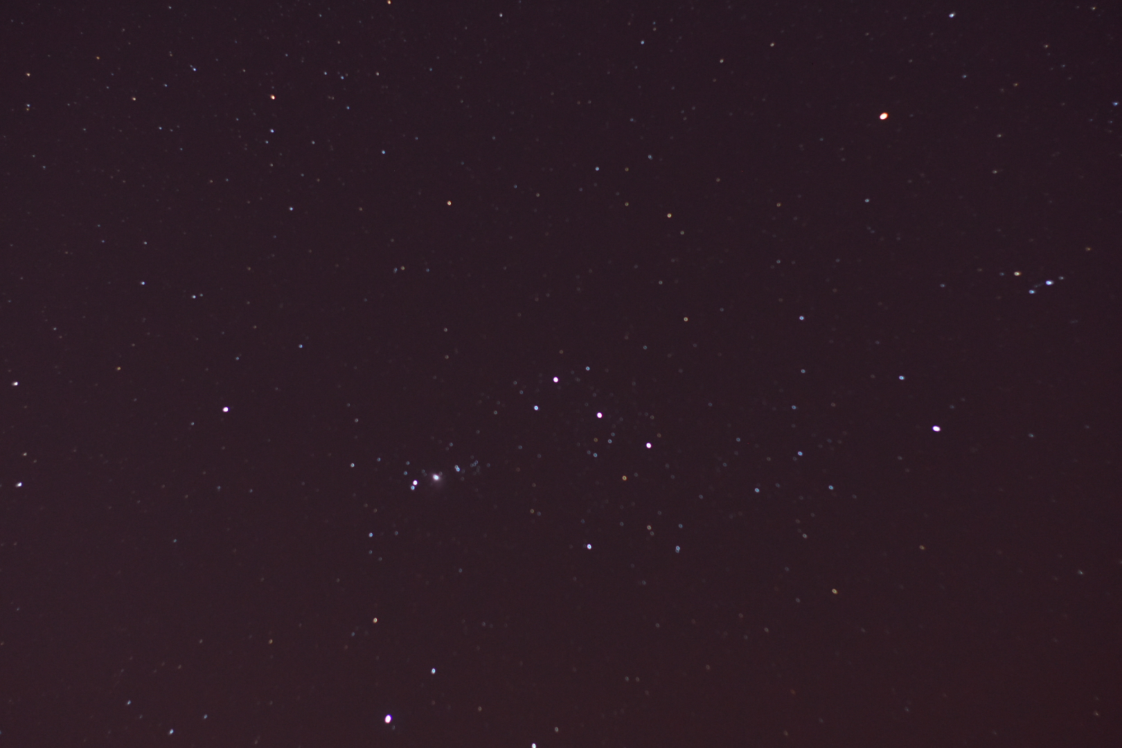 Belantik, Kuantan